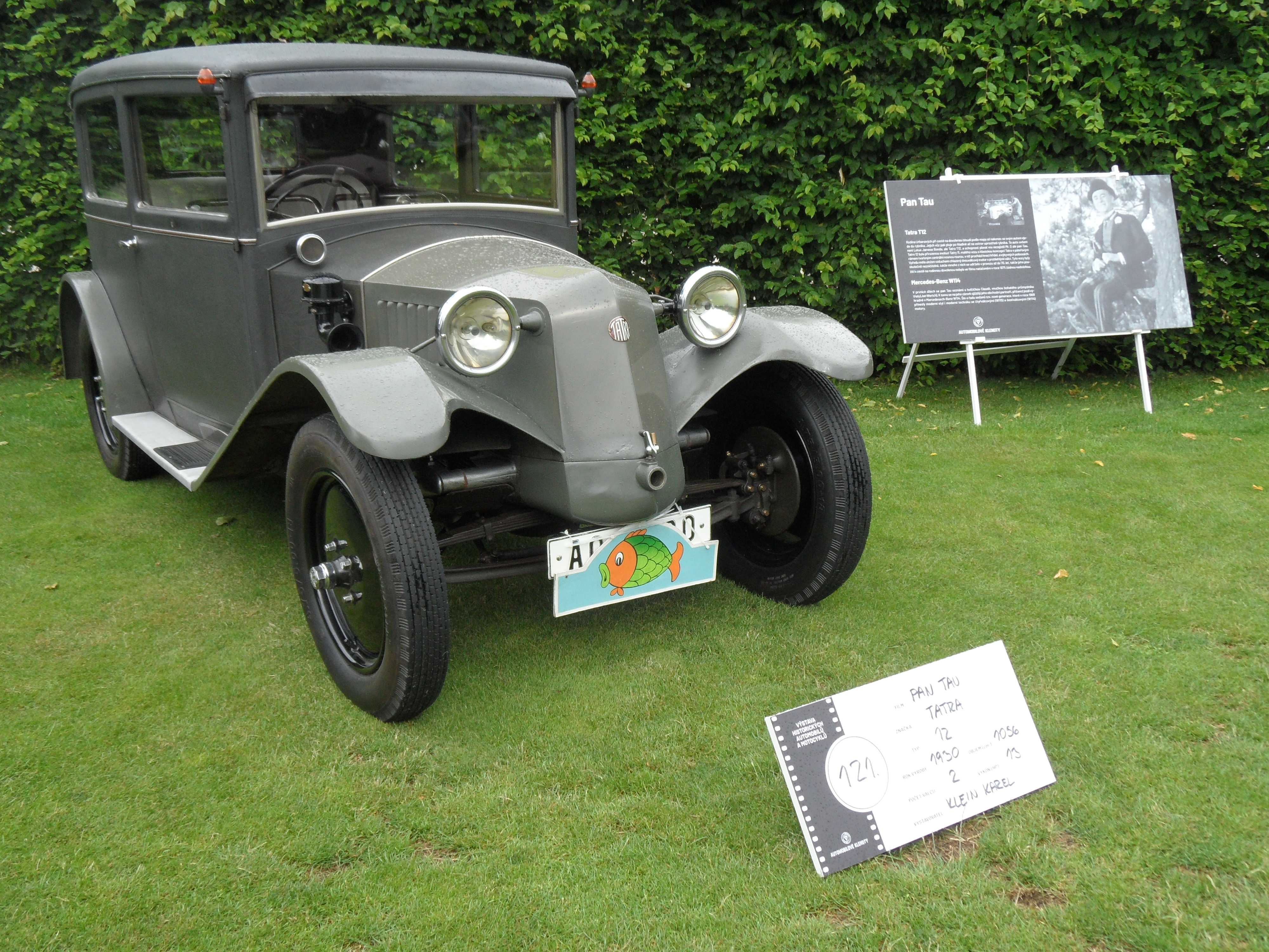 Exhibition Automobilové klenoty 2019. A. Cars from Films: Tatra 12, 1930: Pan Tau. Prague, the Czech Republic.